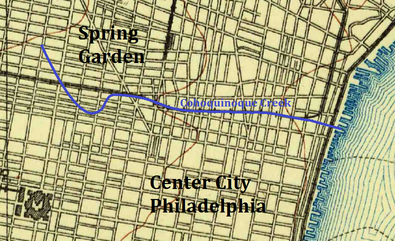 Former course of the Cohoquinoque Creek in Philadelphia. Base map is an 1891 USGS map. Course is based on this article and on various other written sources.